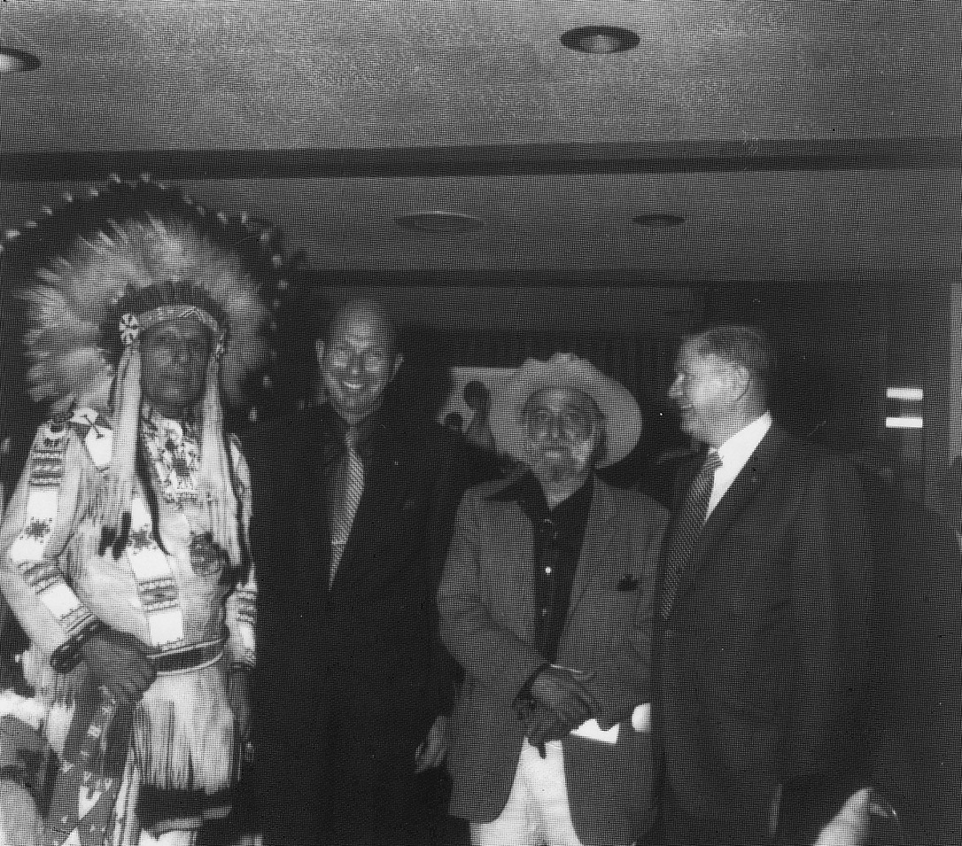 Actor, Iron Eye's Cody was a big fan of DeGrazia's work and thought he portrayed the Southwest American Indians beautifully.